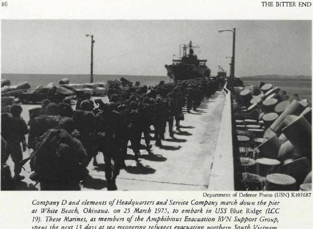 WYSWYG Blue Ridge at White Beach, Okinawa: "He stated that when the battalion was alerted on 25 March 1975, "I was instructed that my company would be helilifted to White Beach at around 1400 for embarkation aboard the USS Blue Ridge. ... for immediate departure to Da Nang where we would reinforce U.S. facilities. We did embark on 25 March ... Blue Ridge did not get underway for Vietnam until 27 March ... [76] Marines and sailors hastily trained to prepare for the anticipated mass of humanity. Crowd control, evacuation procedures, and a Vietnamese orientation course occupied the Marines' time on board ship. Counterintelligence personnel briefed Marines in the problems of identifying and neutralizing saboteurs, The interrogator-translator team gave a quick Vietnamese language orientation course, Key Navy and Marine Corps officers and senior enlisted men made walkthroughs of the evacuation chain, The versatile printing section on board the Blue Ridge reproduced thousands of signs in Vietnamese composed by the 17th ITF. Captain Bushey's counterintelligence team prepared a simplified instruction card for the small unit leader that included basic Vietnamese phrases and human relations oriented "do's and don'ts.' " [77]